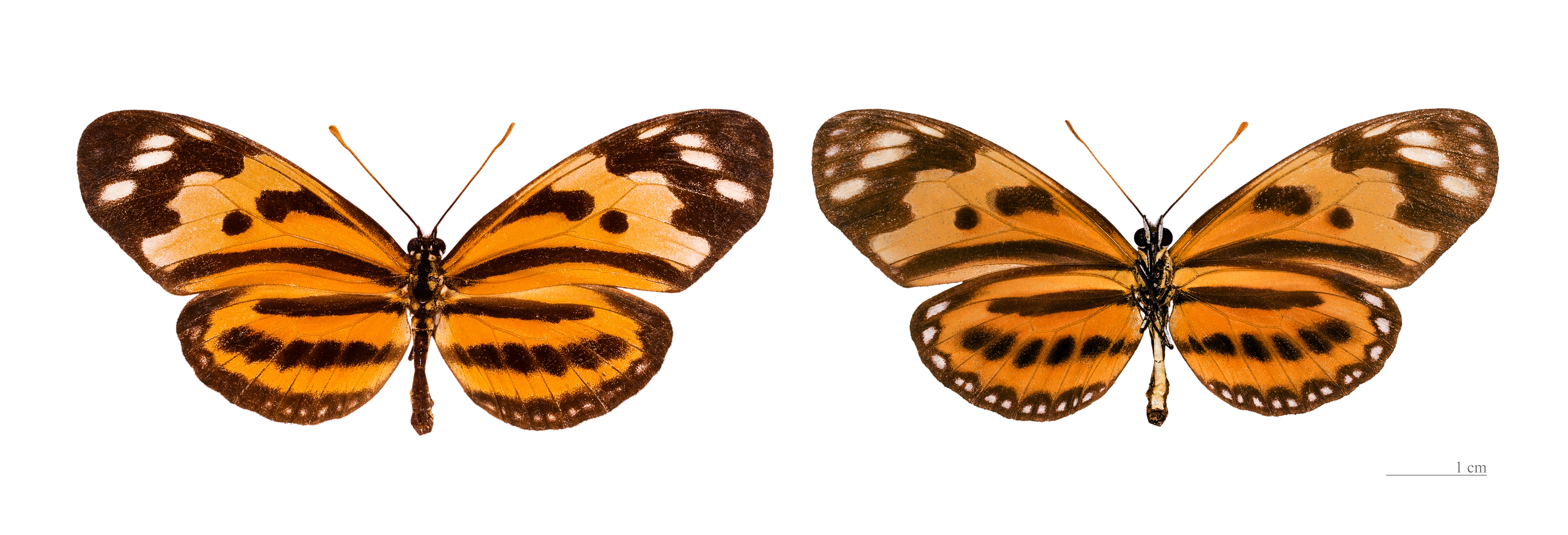 ♂ - Two views of same specimen Locality : Route de Kaw PK40, French Guiana.